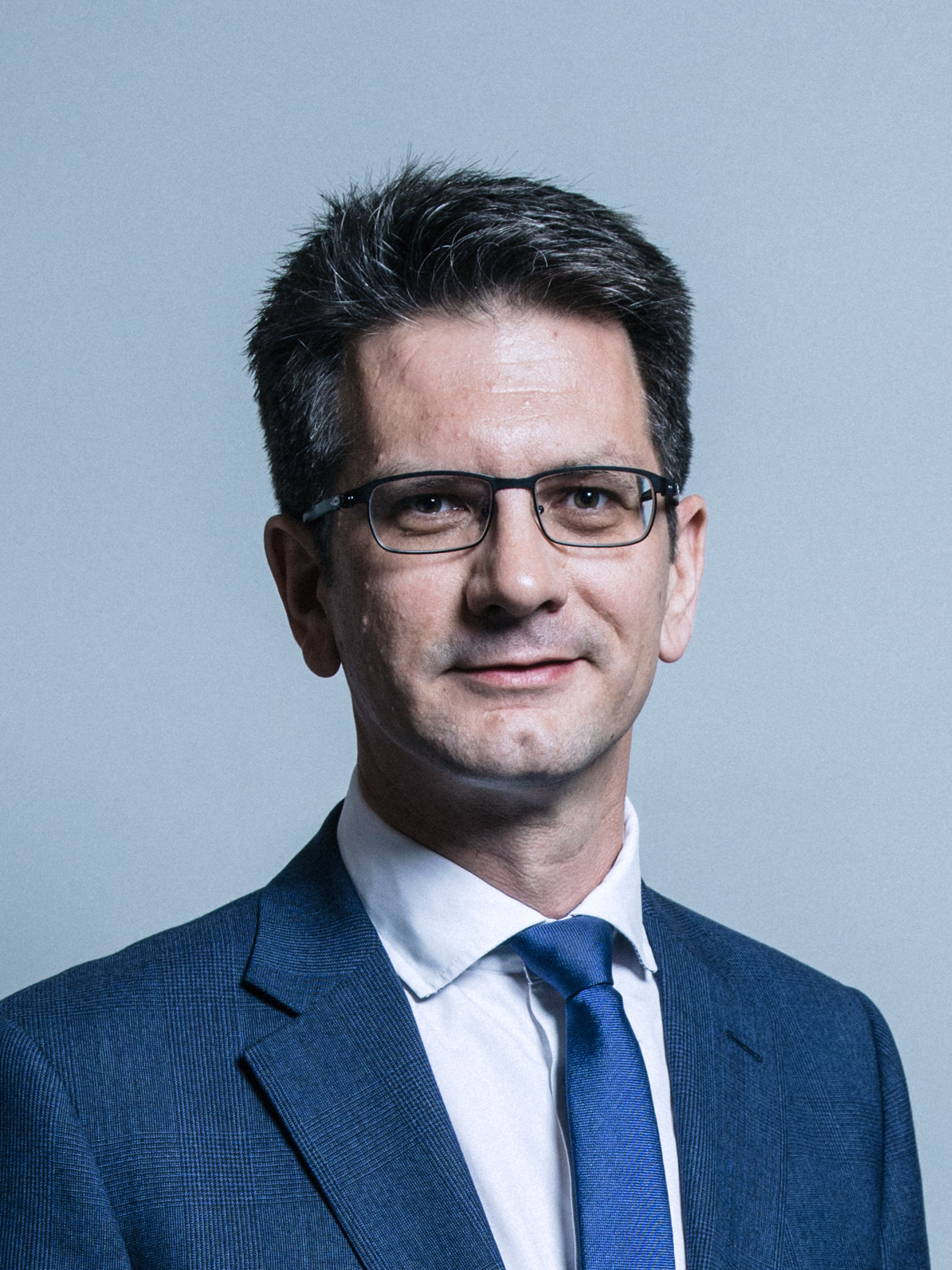 Official portrait of Mr Steve Baker